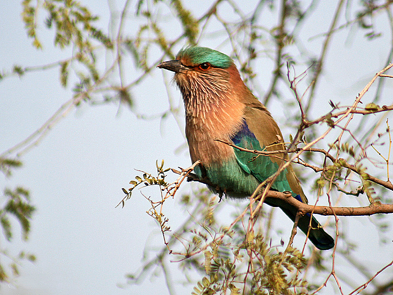 Indian Roller Coracias benghalensis at Bharatpur, Rajasthan, India.